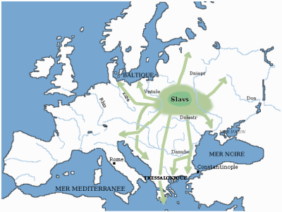 The origin and dispersion of the Slavs in the 5-10th centuries.